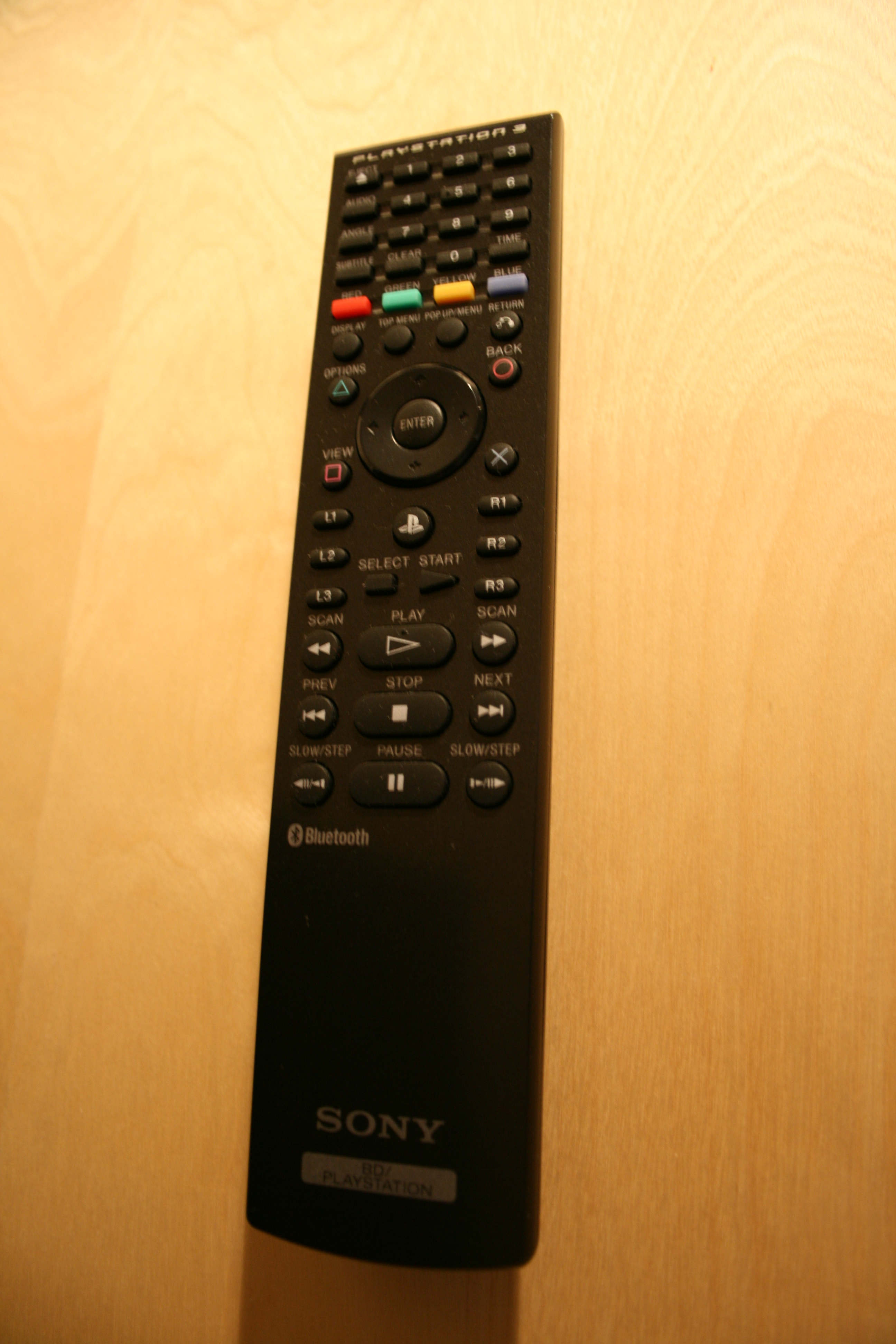 Sony PS3 BluRay Remote Control